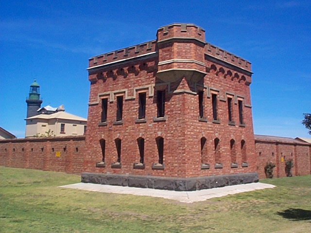 Photo of a brick fort